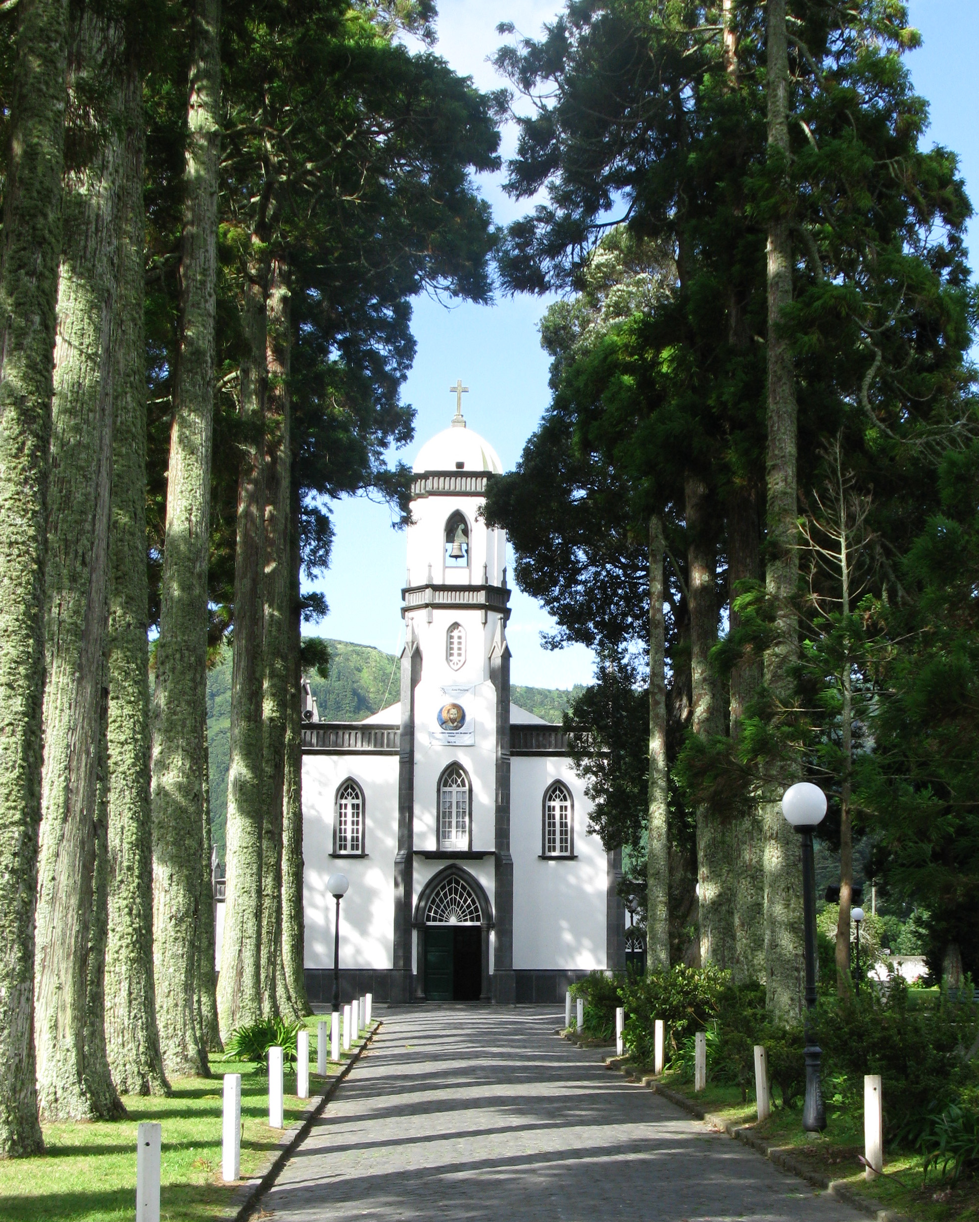 The corridor to the Church of São Nicolau, Sete Cidades, Ponta Delgada, São Miguel (Azores), Portugal